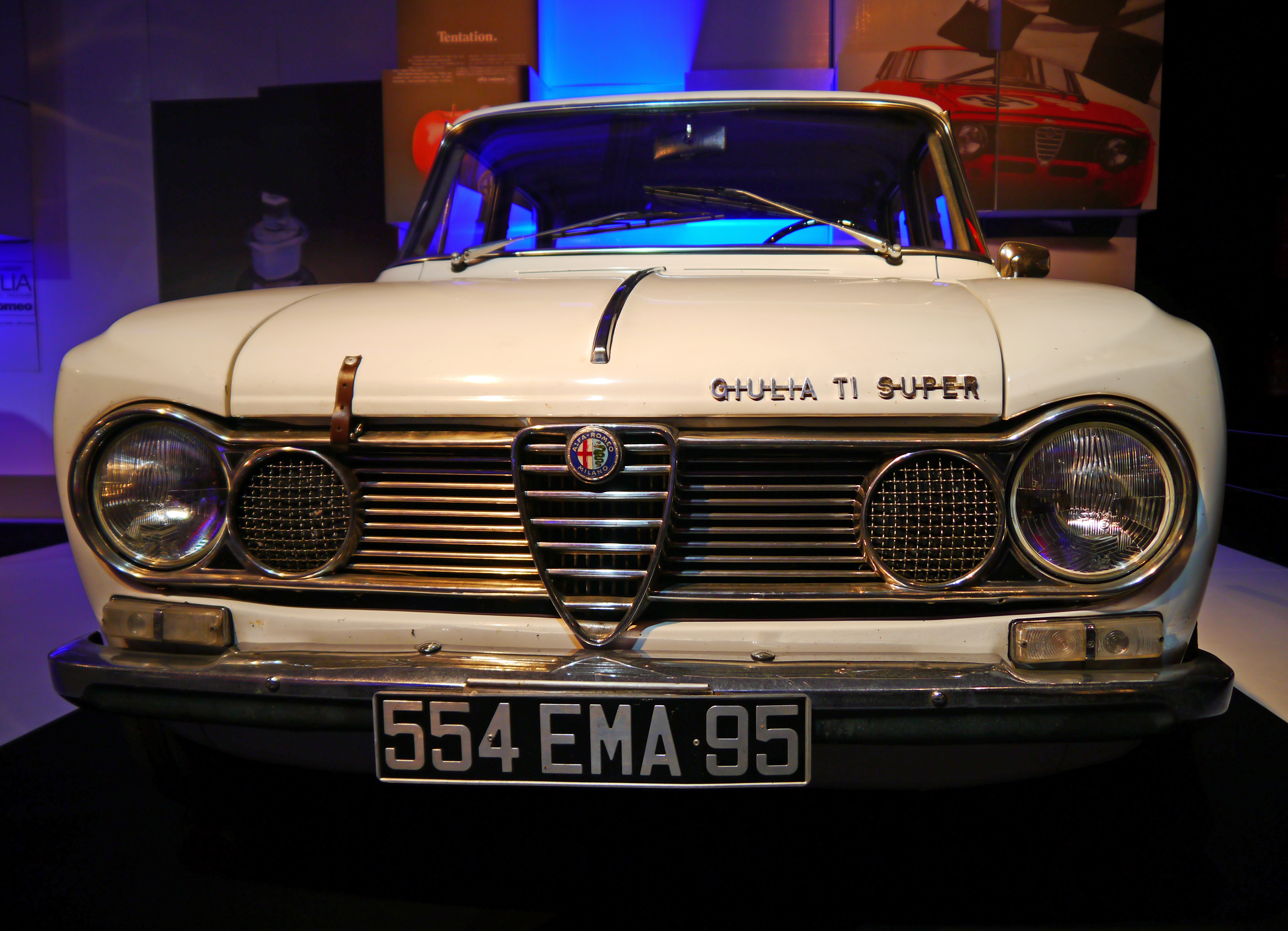 1964 Alfa Romeo Giulia TI Super. 4-cylinder 1600 cc engine (112 bhp) - Top Speed: 189 Km/h.